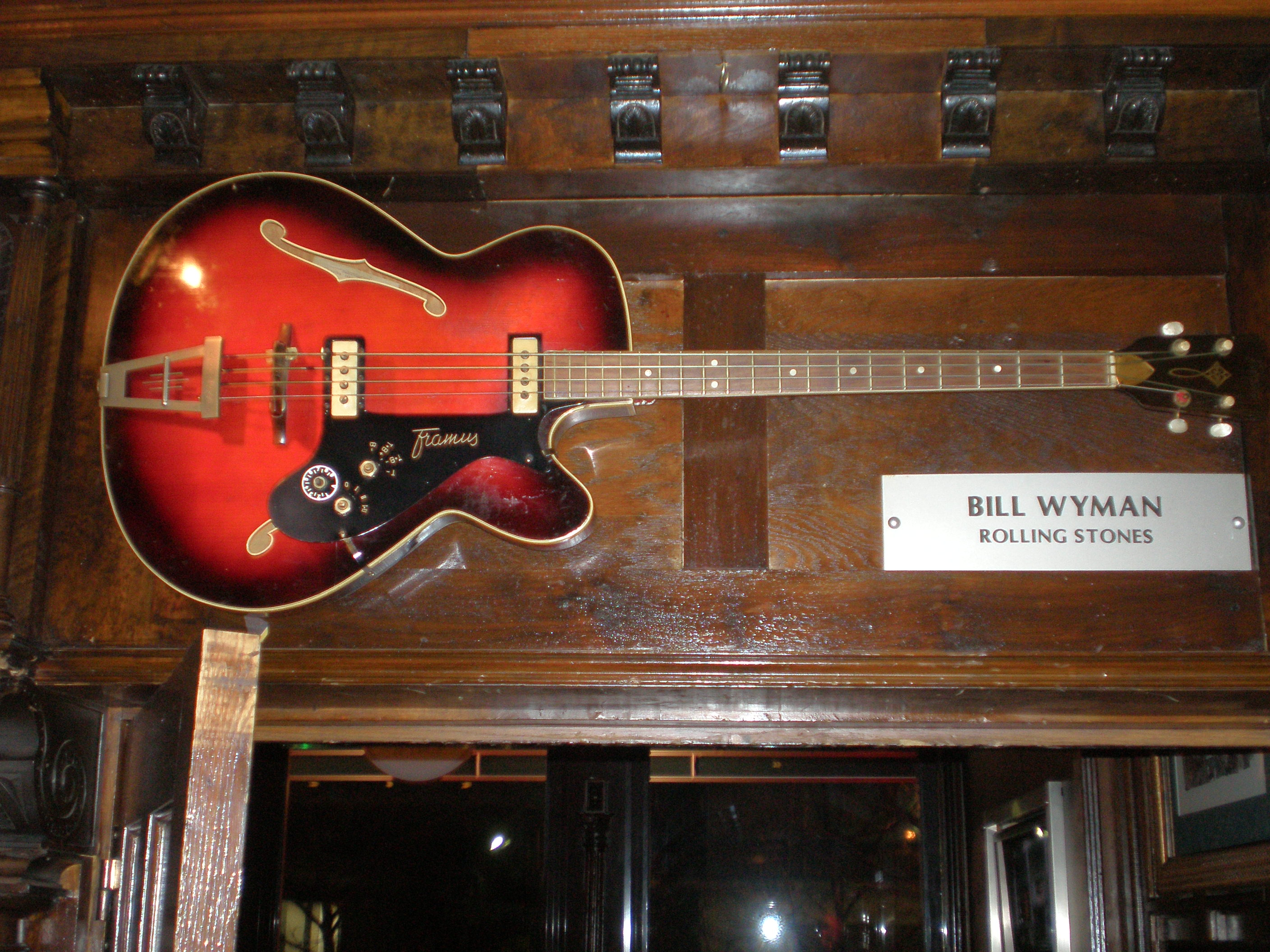 Bill Wyman (Rolling Stones) used to own this guitar, located at Hard Rock Café Paris. Framus 5/150 Star Bass (1960s)